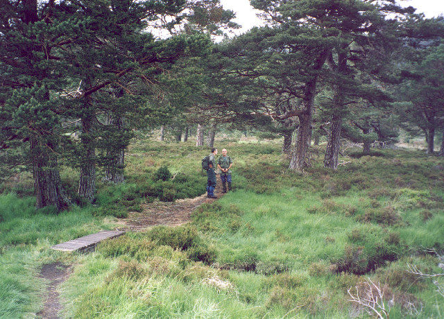 Caledonian Pine woods near Loch an Eilein.